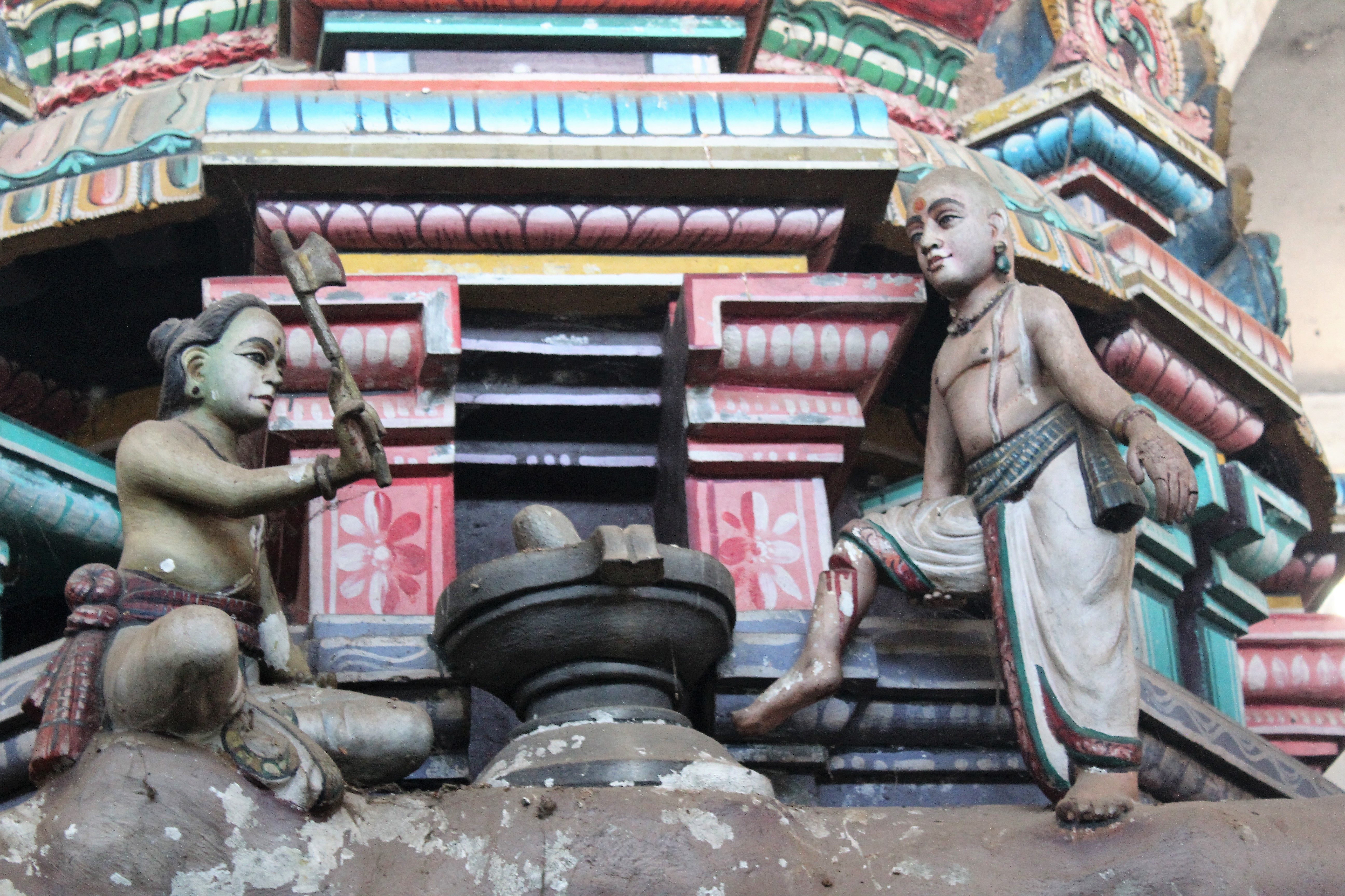 Amirthakadeswarar temple Thirukadayur